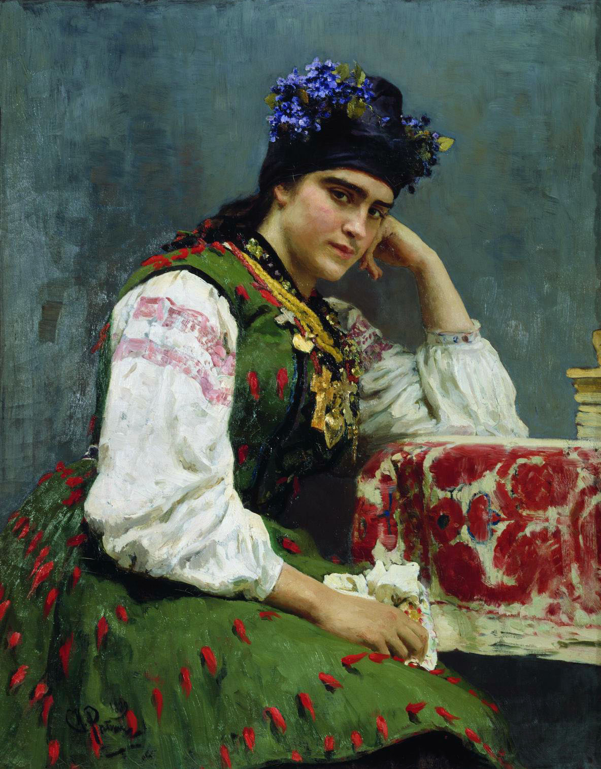 Portrait of Sophia Mikhailovna Dragomirova, general Mikhail Ivanovich Dragomirov's daughter